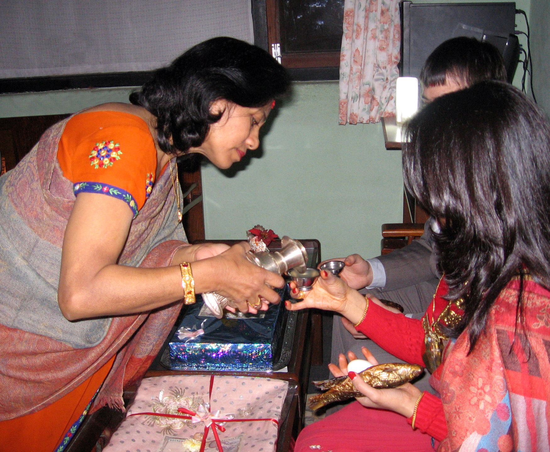 Pouring rice wine during the Nepalese ceremony of Sagan Biyegu to wish happiness and prosperity. Note smoked fish and boiled egg in left hand.